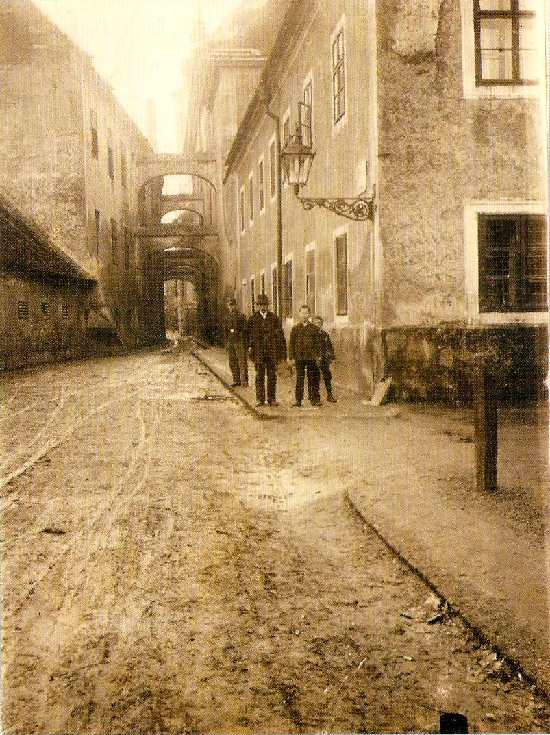 Heßstreet in St. Pölten, around 1890